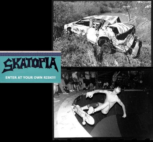 Skatopia Sign